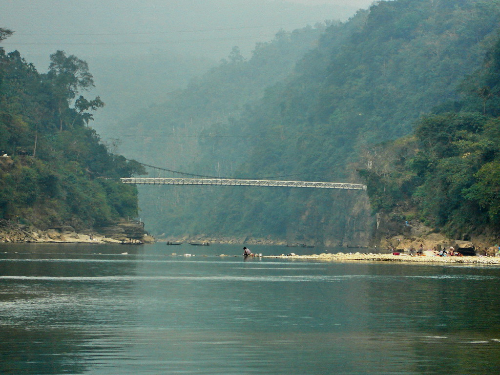 Zero point at Zuflong, Sylhet, Bangladesh.